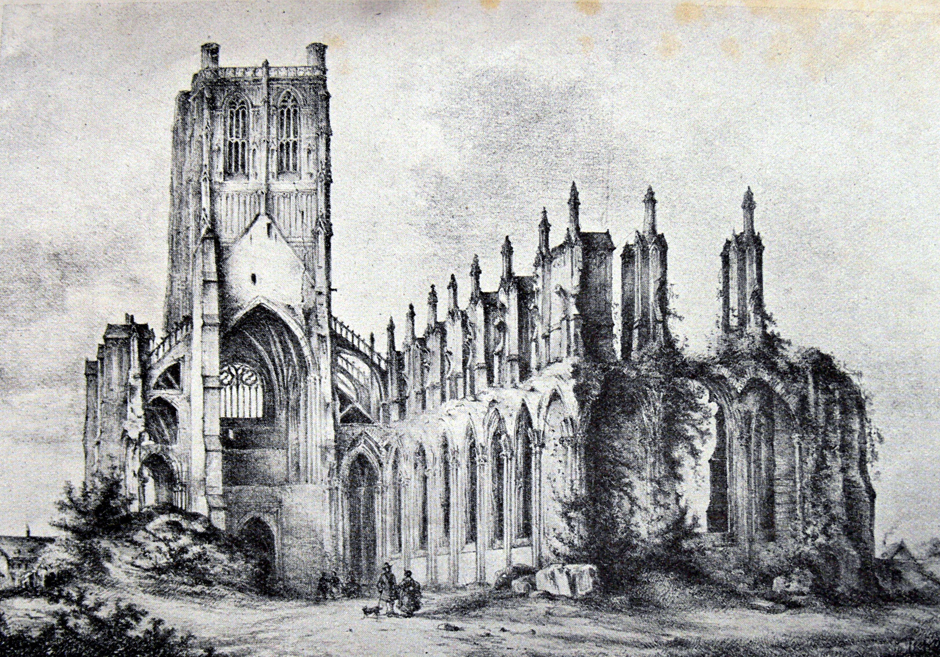 Litohgraphie representing the ruins of the church of Saint-Bertin, in Saint-Omer (city of northern France), circa 1850, by Mr. lithographer Ulysses Delhom, Artist-Painter from the "audomarois" (country of St Omer) (1821-1897)